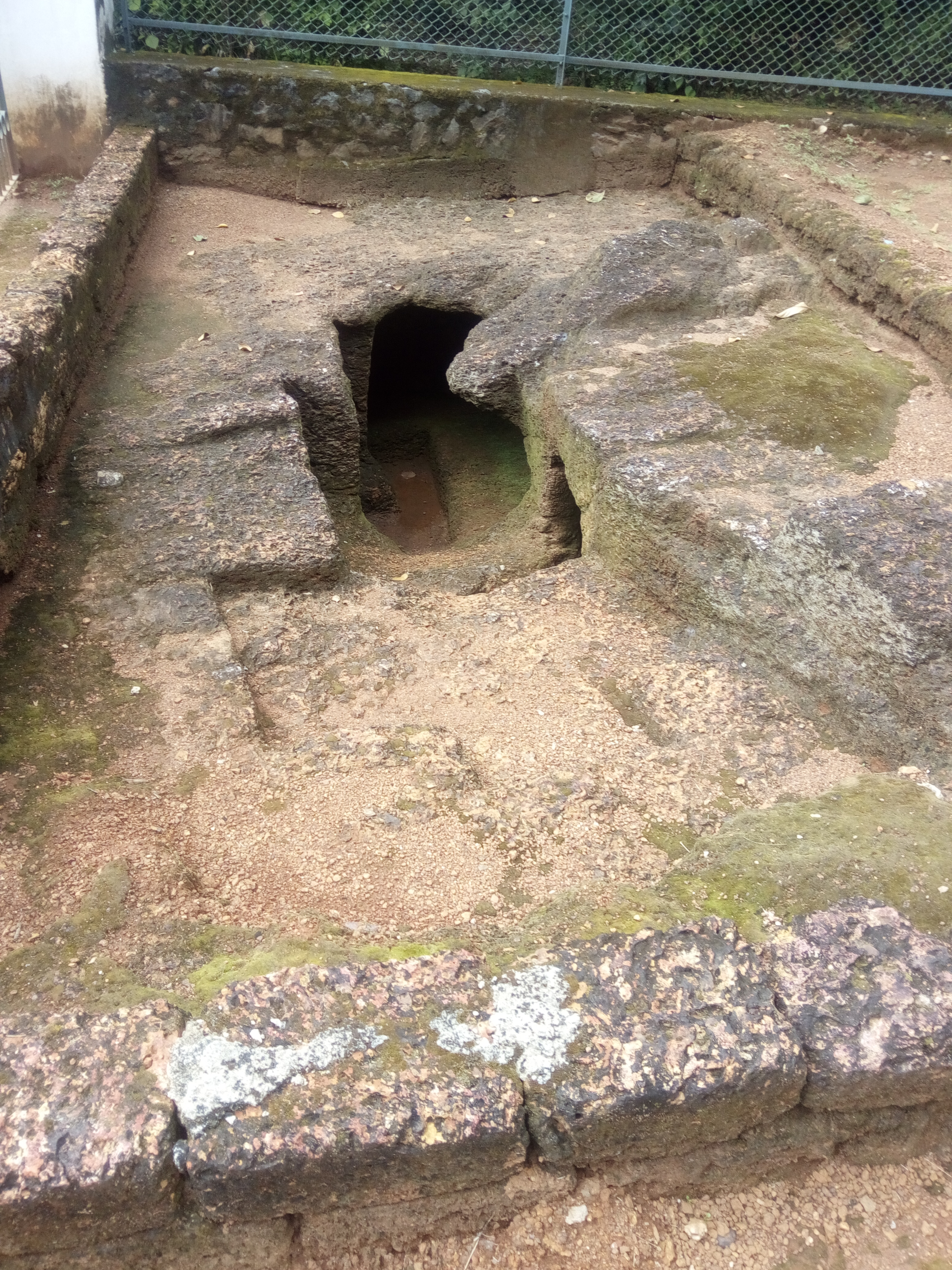 Eyyal cave, choondal-perumpilav road